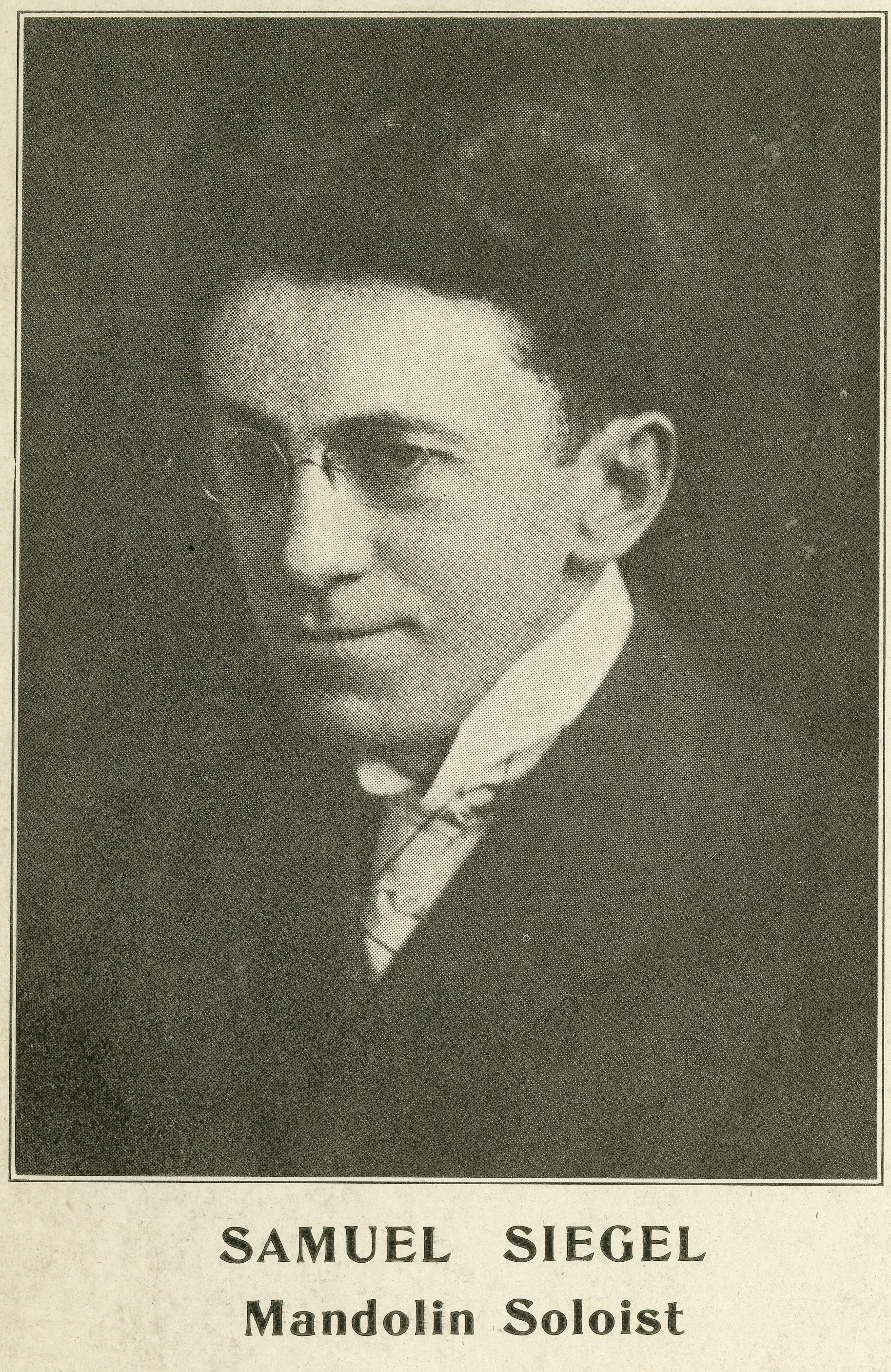 Samuel Siegel from a 1918 advertisement for the American BMG guild